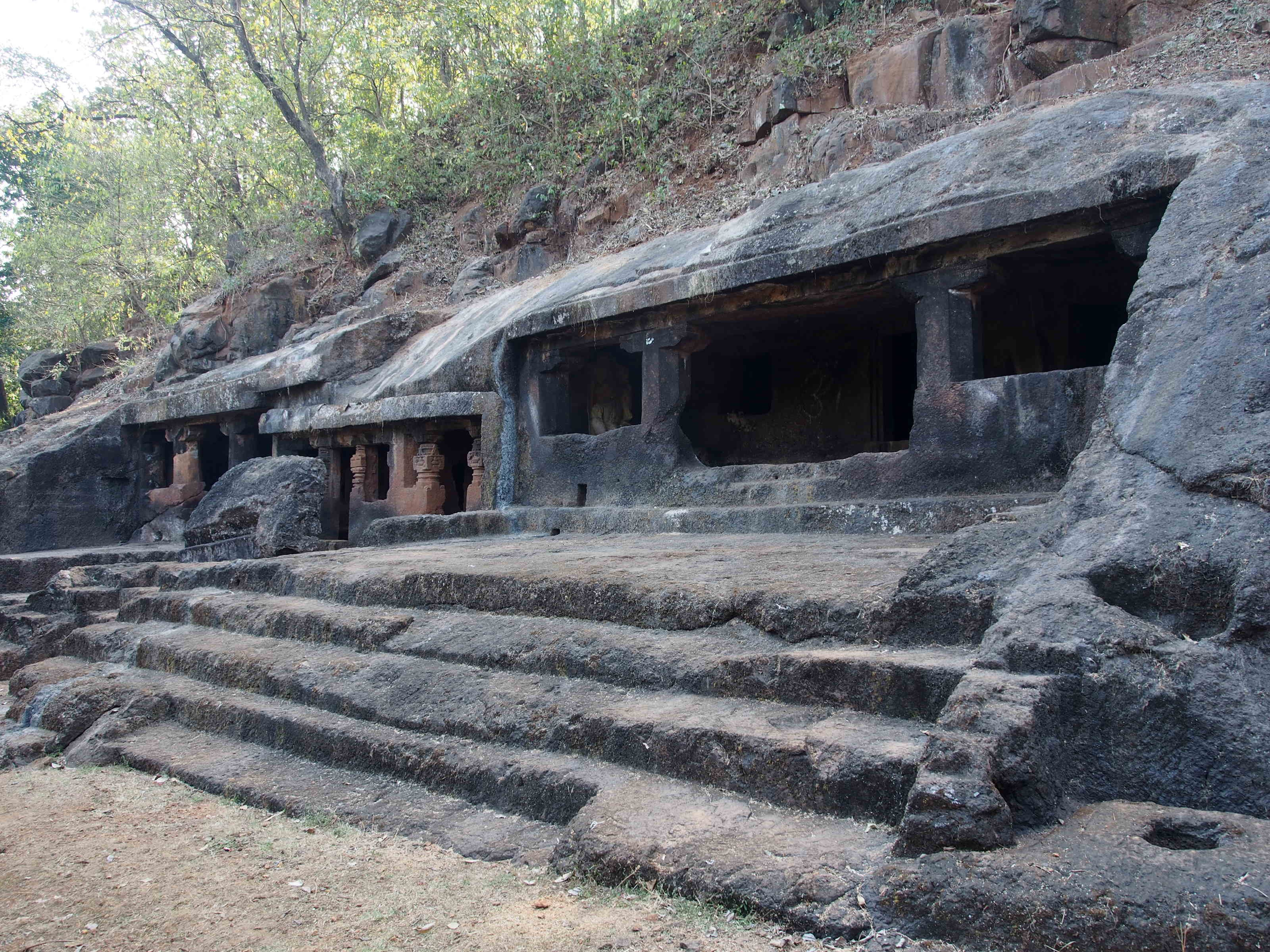 Panhalakaji Caves Dapoli